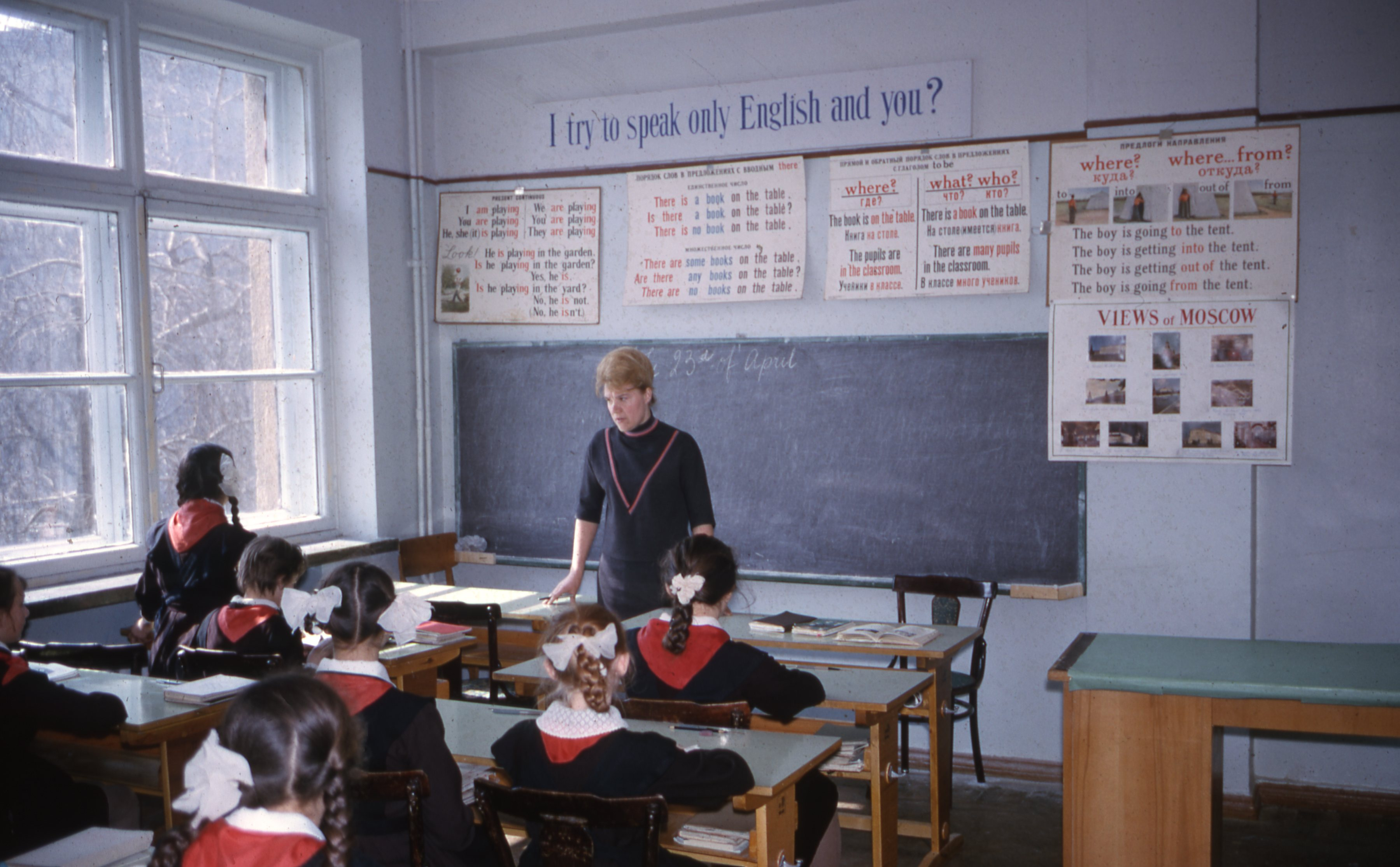 These photos were taken by Thomas T. Hammond during his trip to the Soviet Union. The photos are unlabeled, so the specific locations and people are unknown. This specific image features an English classroom in Moscow. // Location: Present-day School 600, Khavskaya Street 5, Moscow. Identified by window shape vs. File:Moscow, Khavskaya 5 school in 1964.jpg